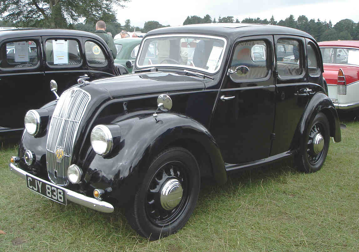 Morris Eight Series E Saloon. Photographed by myself on 20 August 2006 at tatton Park, Cheshire, UK (DVLA) first registered 29 April 1946, 885cc